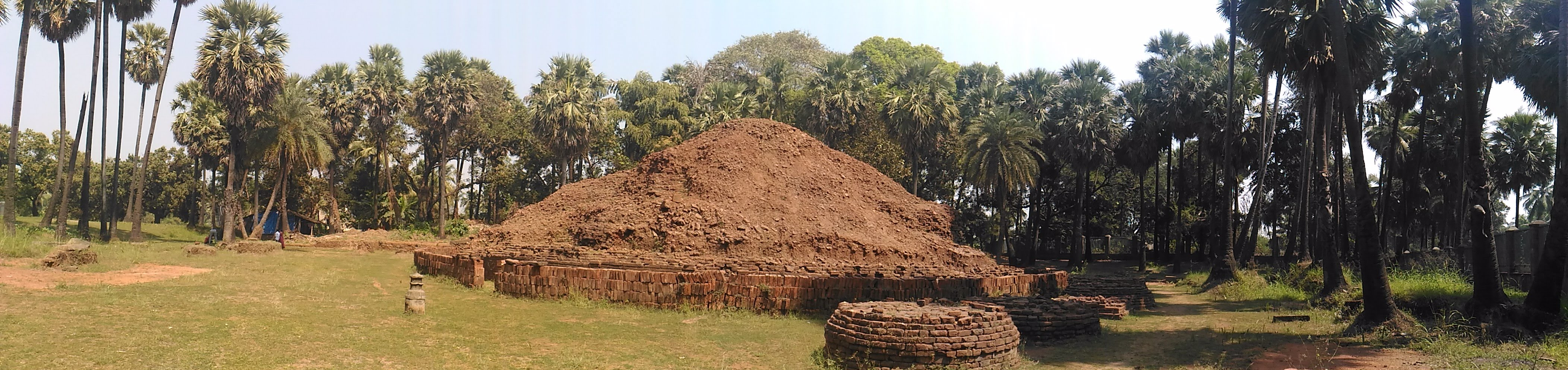 Excavated in April 1882 by Bhagwan Lal Indraji, The ruins of a Buddhist Stupa was found. Nala Sopara is accepted by scholars as the Suparaka or Supparak of ancient India and was a busy trade centre and an important seal of Buddhism. It was also one of the administrative units under the Satavahanas and is mentioned in the inscriptions of Karle, Nashik, Naneghat, and Kanheri. From the centre of the stupa (inside a brick built chamber) a large stone coffer was excavated which contained eight bronze images of Maitreya Buddha which belong to the c. 8th-9th century CE. This coffer also enclosed relic caskets of copper, silver, stone, crystal and gold, along with numerous gold flowers and fragments of a begging bowl. A silver coin of Gautamiputra Satakarni (Satavahana) was also found from the mound. The Bombay Provincial Government presented the Sopara relics to the Asiatic Society of Bombay. The coins and the artifacts found during the excavations at the site of this ancient town can still be viewed in the Asiatic Society, Mumbai museum.